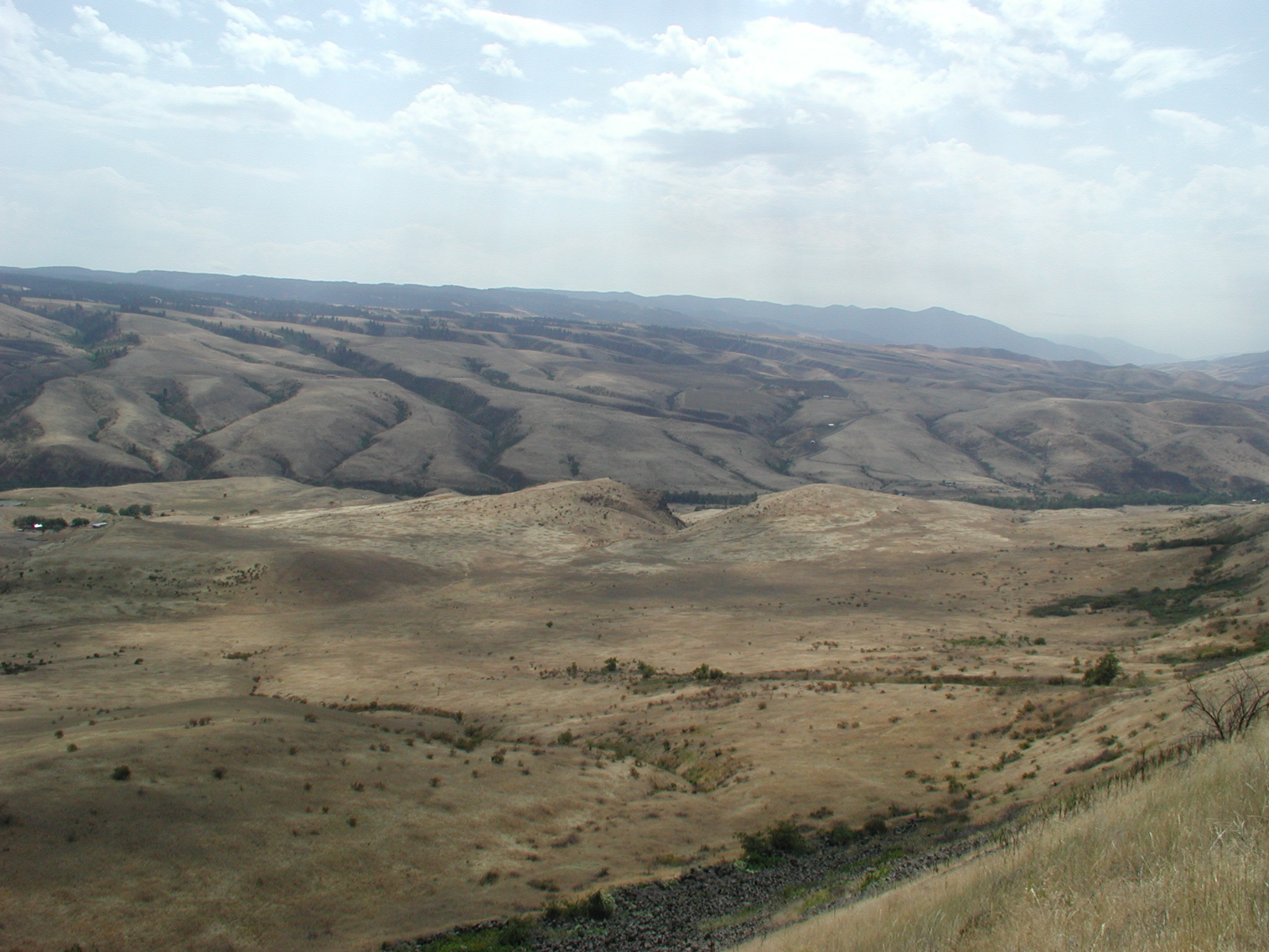 Whitebird Canyon Battlefield, Idaho, USA. This is where the first battle of the 1877 Nez Percé war took place. The Nez Percé defeated the U.S. Army. Whitebird Canyon as the soldiers saw it approaching from the North. The Nez Perce encampment was along White Bird Creek, the tree line running left to right across the center of the photo. The soldiers established defense lines on the right hand knoll in the center and retreated up the ridge from which this photo is taken. White Bird Creek entered the Salmon River just off the right side of the photo.